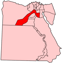 Map of Egypt showing Al Jizah (Giza) governorate. Made by User:Golbez based on PD maps.